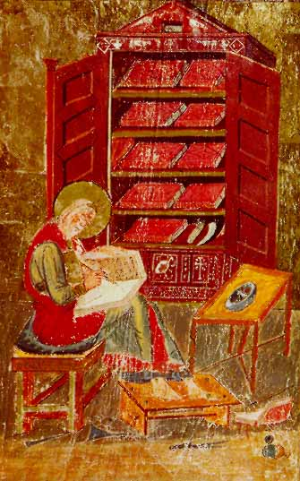 "When the sacred books had been consumed in the fires of war, Ezra repaired the damage."